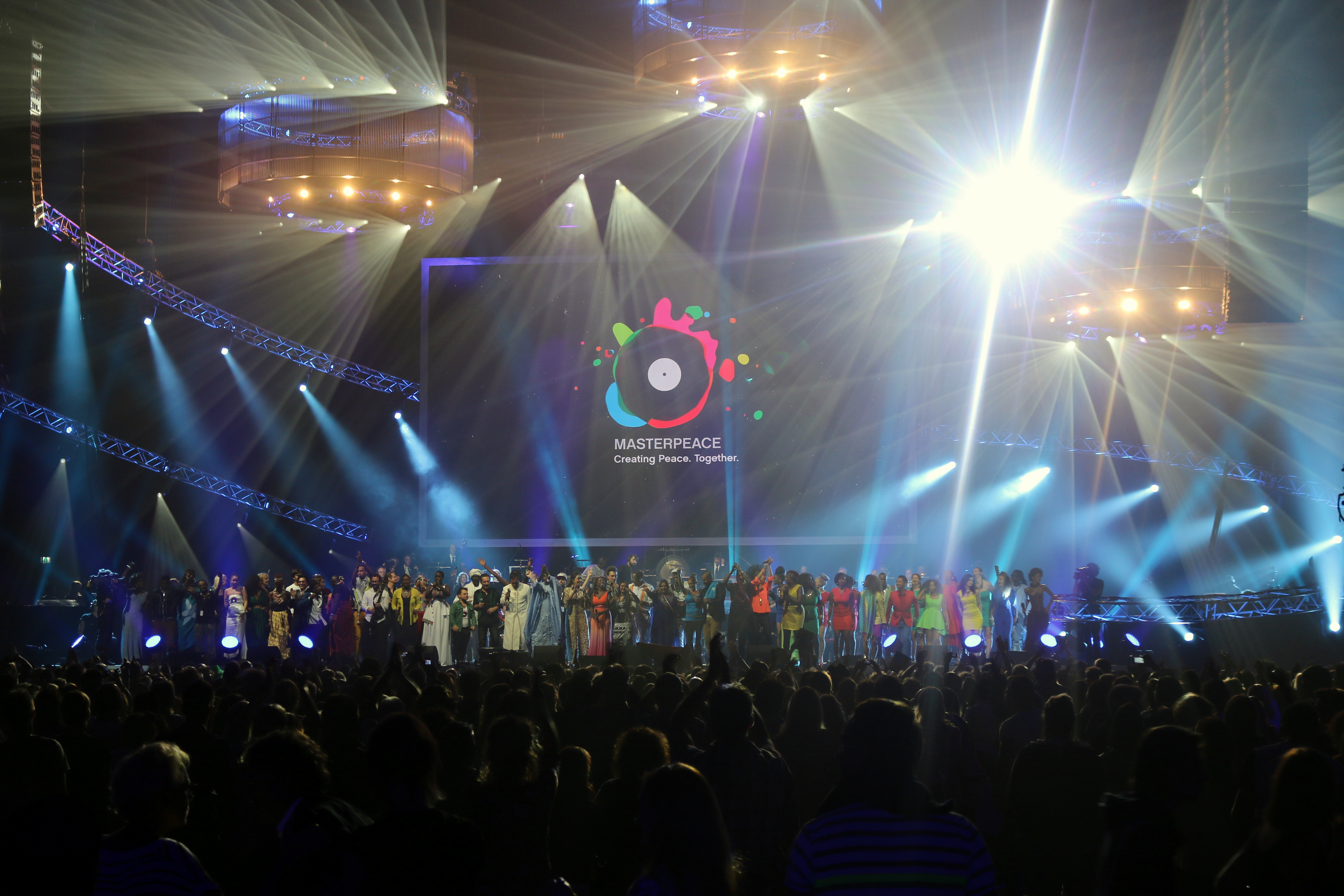 The concert of INTERNATIONAL DAY OF PEACE at Amsterdam's Ziggo Dome. 21 Sep. 2014 (organized by MasterPeace) - Photo: Persian Dutch Network (